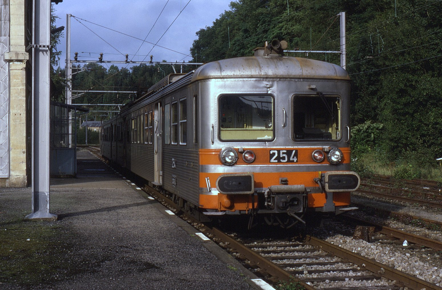 Sisters of SNCF Z6000 class EMUs, these 2-car class 250 sets were utilised on the various branches in Luxembourg. On 11 September 1987, set number 254 is seen at Rumelange-Ottange on the 17:49 departure to Noertzange.